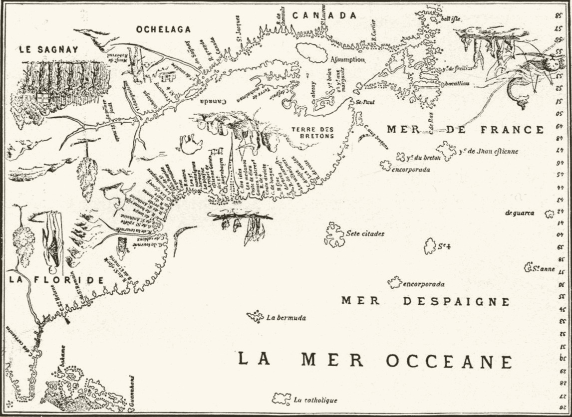 Dauphin Map of Canada - circa 1543 - Showing Jacques Cartier's discoveries. Project Gutenberg eText 20110